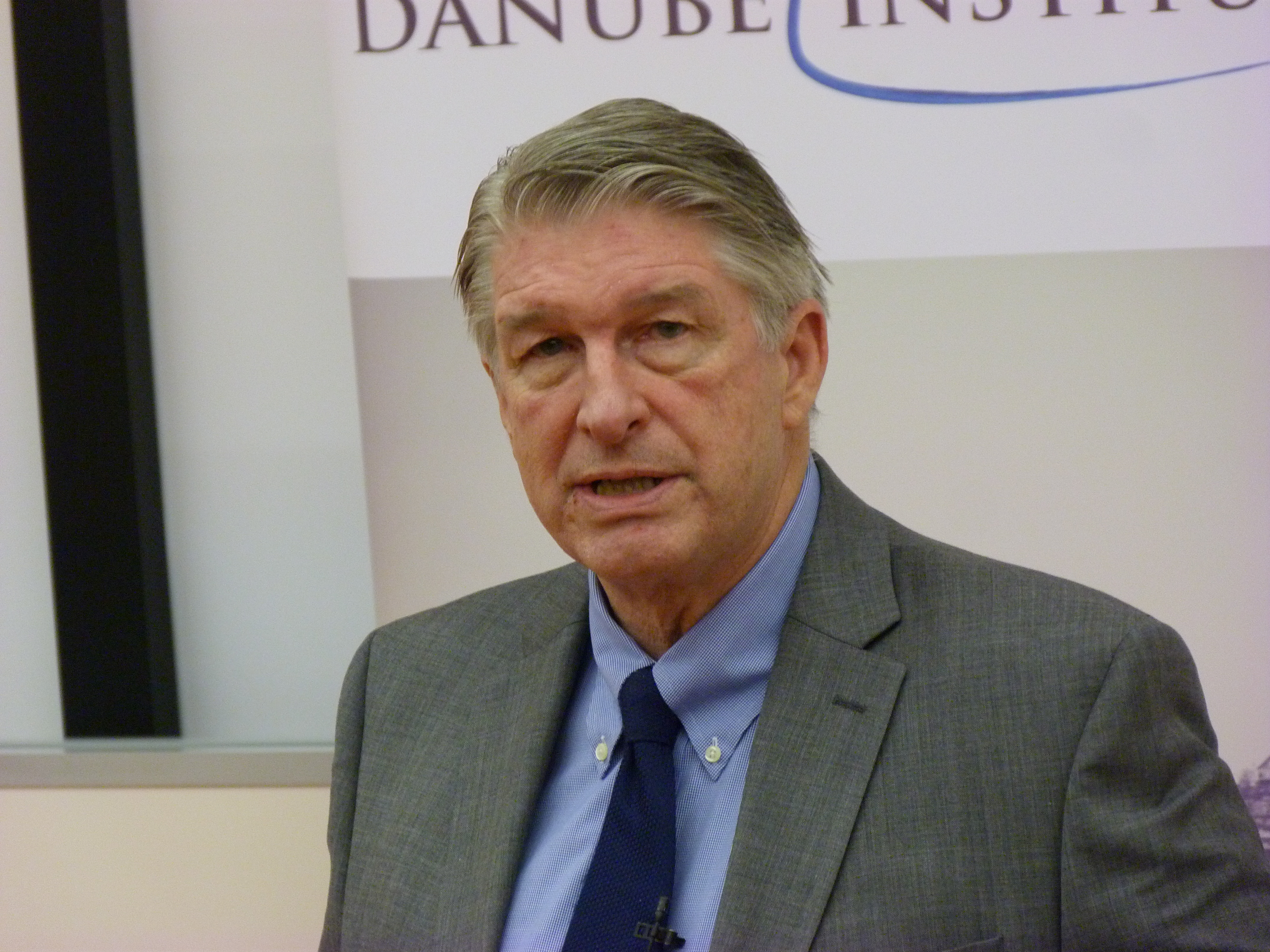 Clark S. Judge delivered his lecture titled "US Midterm elections: Is the Republican Party in its Death Throes ? " at Corvinus University, Budapest, Hungary. Judge had been the speech writer of Ronald Reagen. He works for the Wall Street Journal, New York Times, Financial Times etc. ©© Derzsi Elekes Andor, Budapest 2014, You are authorised to use these photos and vids under Creative Commons – even for commercial, for profit purposes. Photos must be attributed to Derzsi Elekes Andor. All of the photos and vids in the Metapolisz DVD line are under Creative Commons and can be used even for commercial – for profit – purposes. Recommended Citation Derzsi Elekes Andor: Metapolisz DVD line